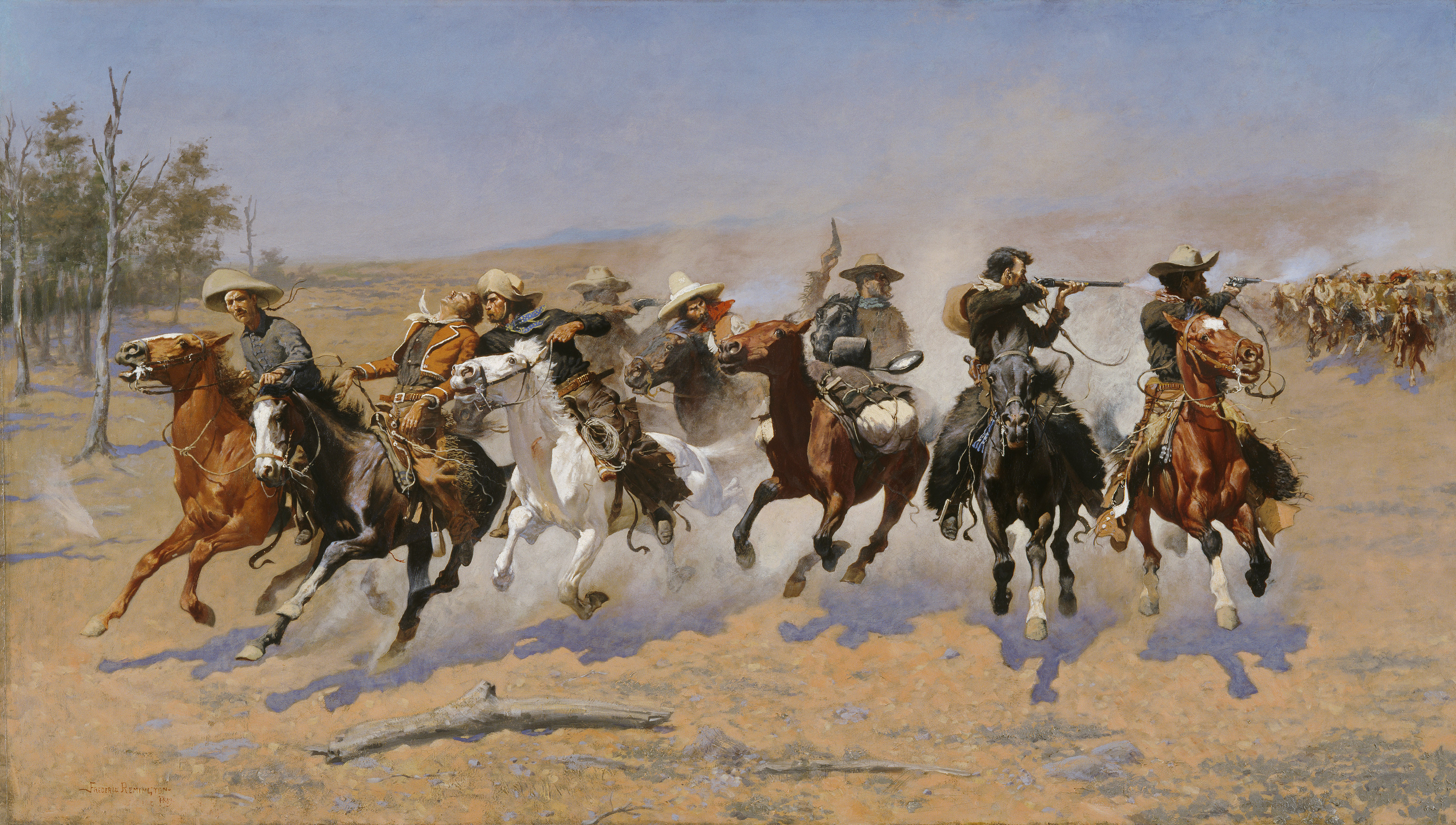 Frederic S. Remington (1861-1909); A Dash for the Timber; 1889; Oil on canvas; Amon Carter Museum of American Art, Fort Worth, Texas, Amon G. Carter Collection; 1961.381